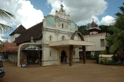 Photo of St.Mary's Orthodox Cathedral, Thumpamon. (Thumpamon Valiya Pally)